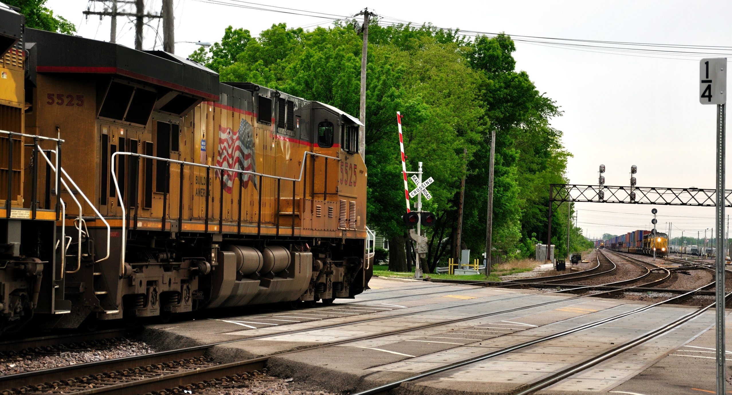 UP 5525 leads an intermodal train on the Union Pacific Geneva subdivision towards West Chicago Yard. The photo was taken at a Washington Street crossing.